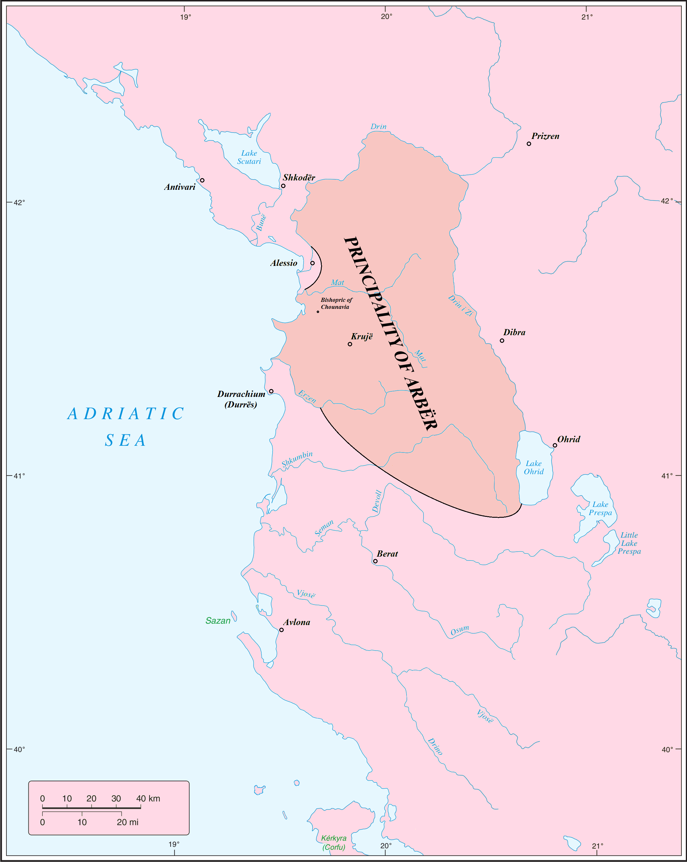 Maximum extension of Principality of Arbër according to Anamali, Skënder and Prifti, Kristaq. Historia e popullit shqiptar në katër vëllime. Botimet Toena, 2002, ISBN 9992716223 p. 197-198